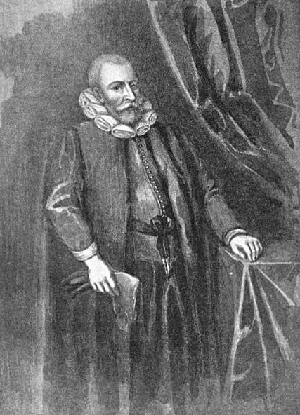 William Jones, philanthropist, died 1615.